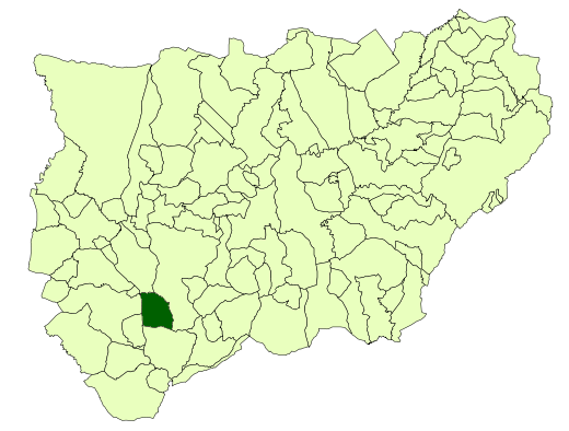 Situation of the municipality of Los Villares (Jaén, Andalusia, Spain).